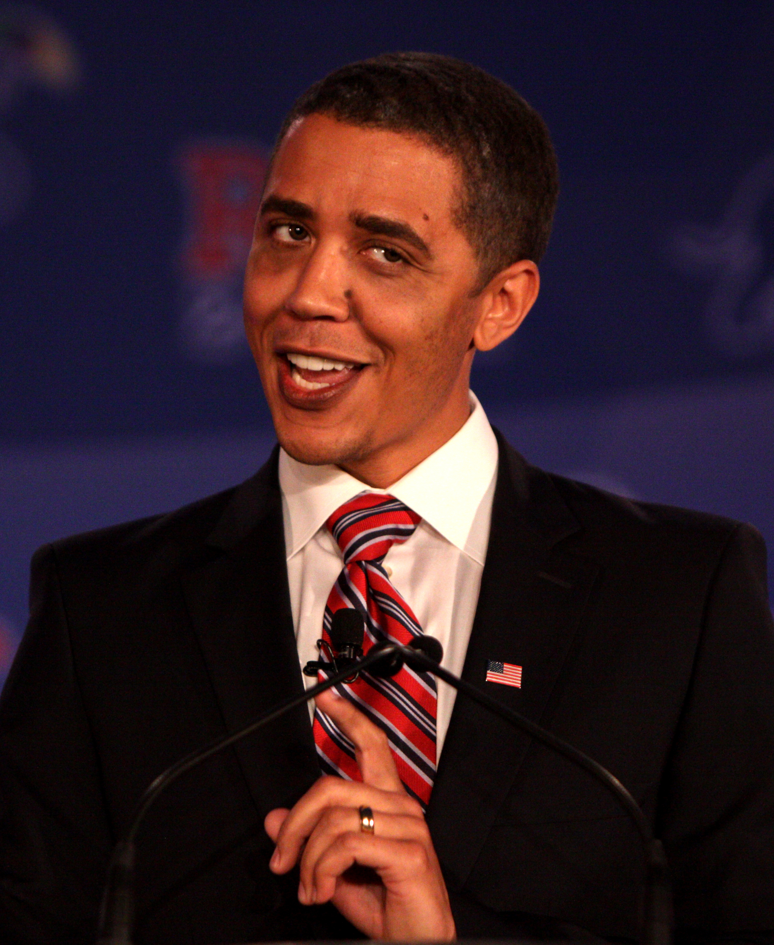 Reggie Brown, a Barack Obama impersonator, at the Republican Leadership Conference in New Orleans, Louisiana.